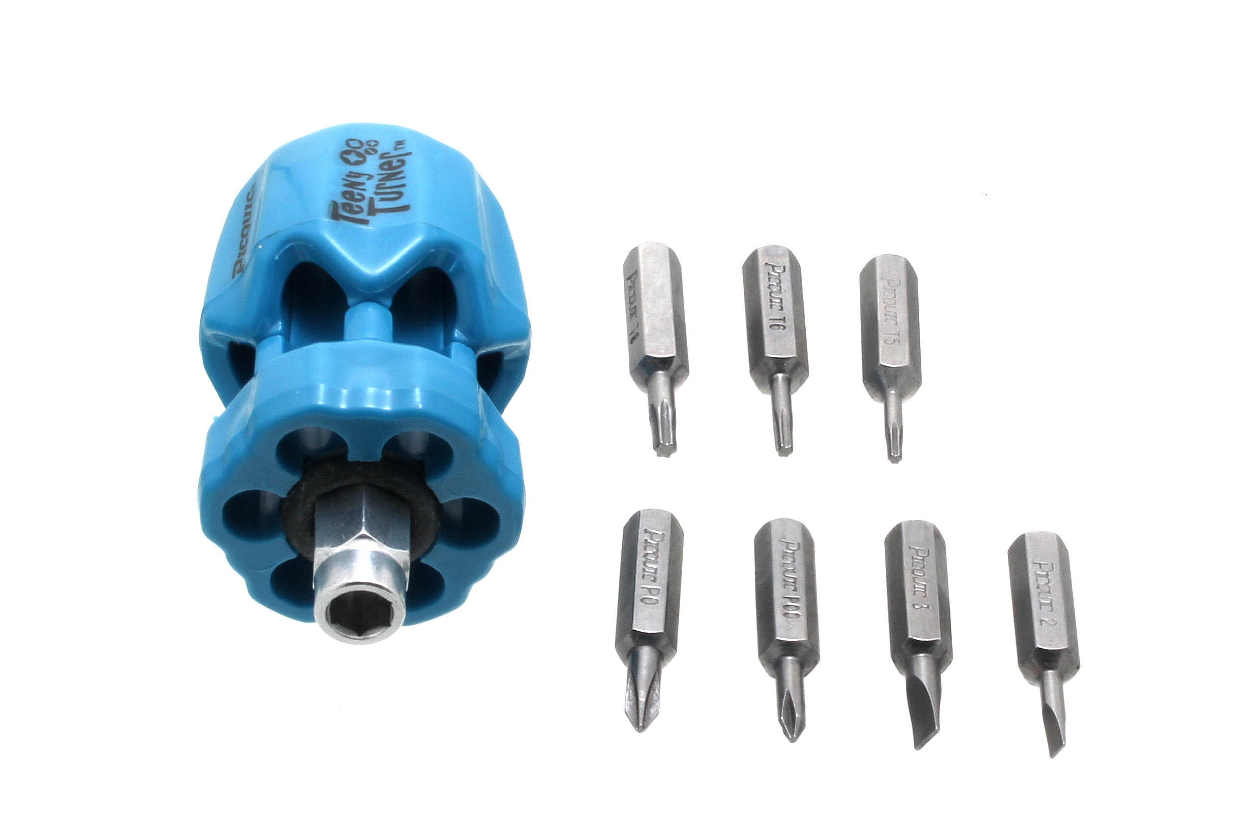 Premium Precision Screwdriver.